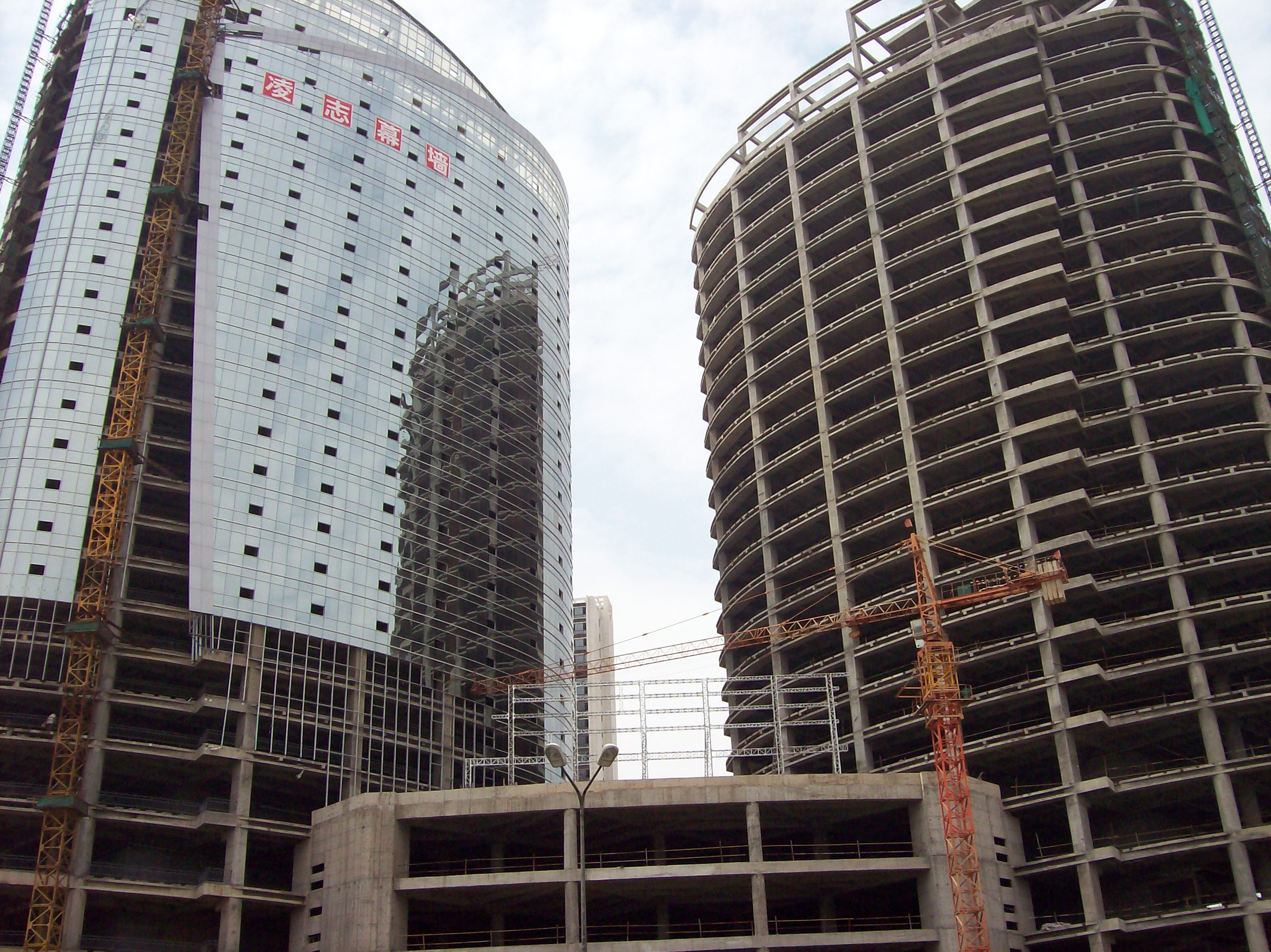 A building project in Wuhan China, the difference in progress of construction of the two towers illustrates the relationship between the load bearing structure and the exterior glass curtain. 中文（中国大陆）: 位于中国武汉洪山区光谷广场旁的一座还未完工的建筑，建筑有左右两幢大楼，左边的已铺上了大半部分的玻璃幕墙，而右边的则只有建筑骨架。已铺上的玻璃幕墙中映出右半部分建筑的影子。